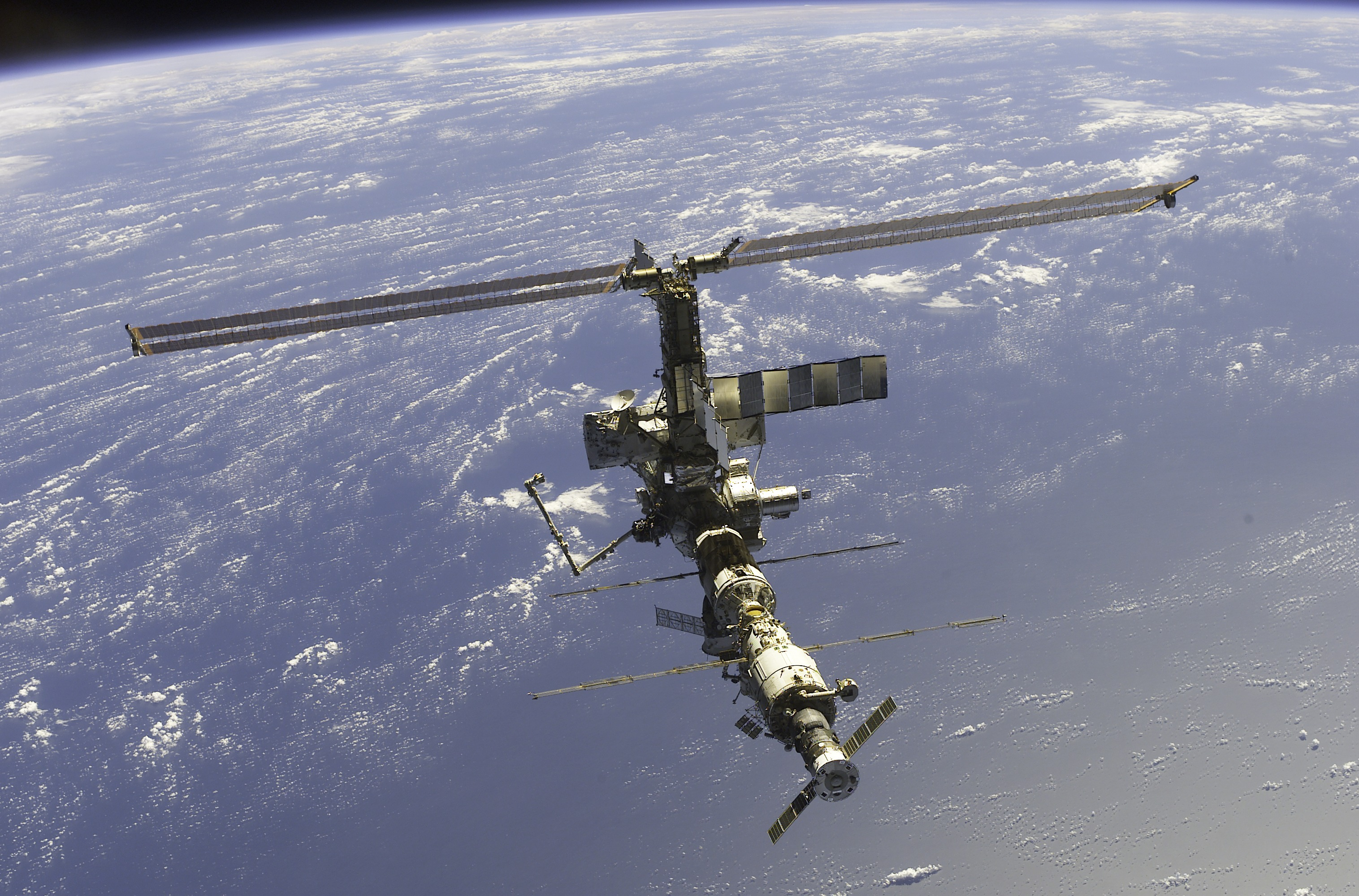 This is one of a series of digital still images of the International Space Station (ISS) recorded by the STS-110 crew members on board the Space Shuttle Atlantis following the undocking of the two spacecraft some 247 statute miles above the North Atlantic. Atlantis pulled away from the complex at 1:31 p.m. (CDT). After more than a week of joint operations between the shuttle and station crews, astronaut Stephen N. Frick, pilot, backed Atlantis away to a distance of about 400 feet in front of the station, where he began a 1 1/4 lap flyaround of the ISS, newly equipped with the 27,000 pound S0 (S-zero) truss, visible in this series of images. S0 is the first segment of a truss structure which will ultimately expand the station to the length of a football field.